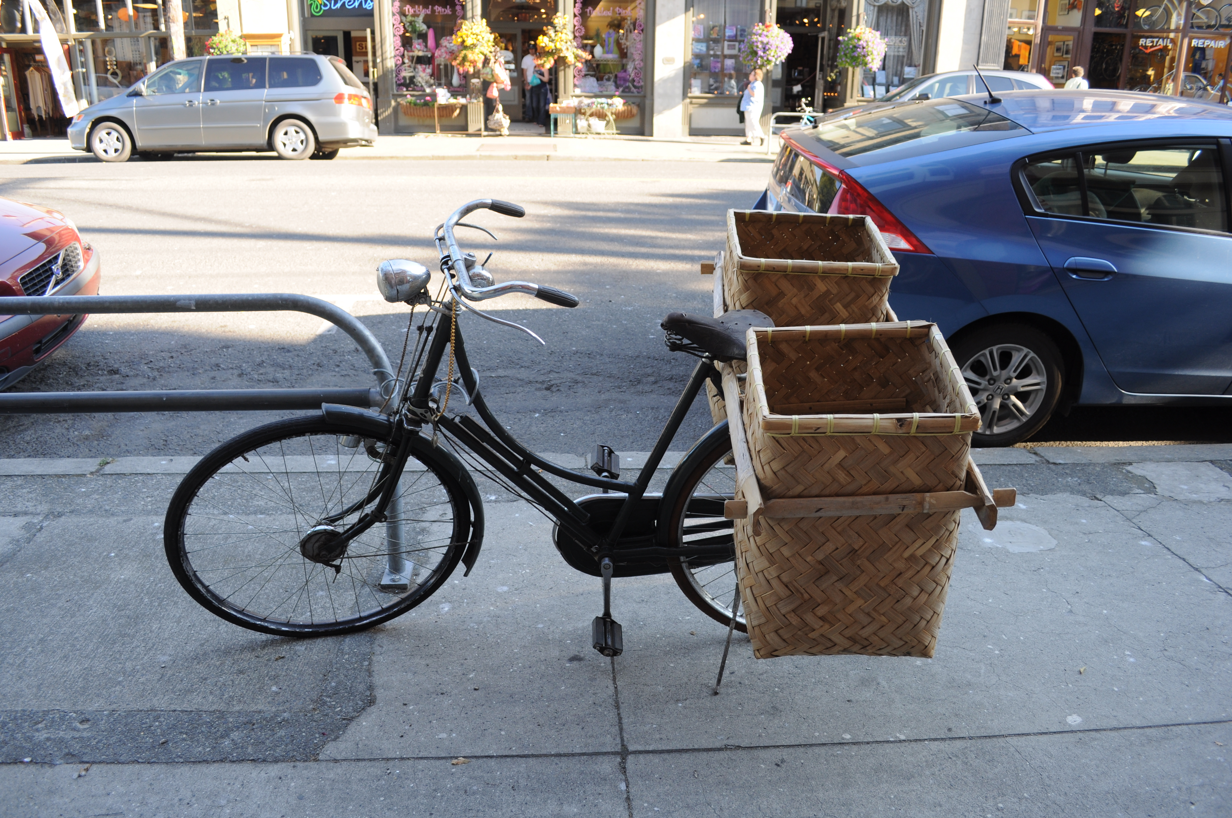 Bicycle with large woven basket panniers, Port Townsend, Washington, USA.